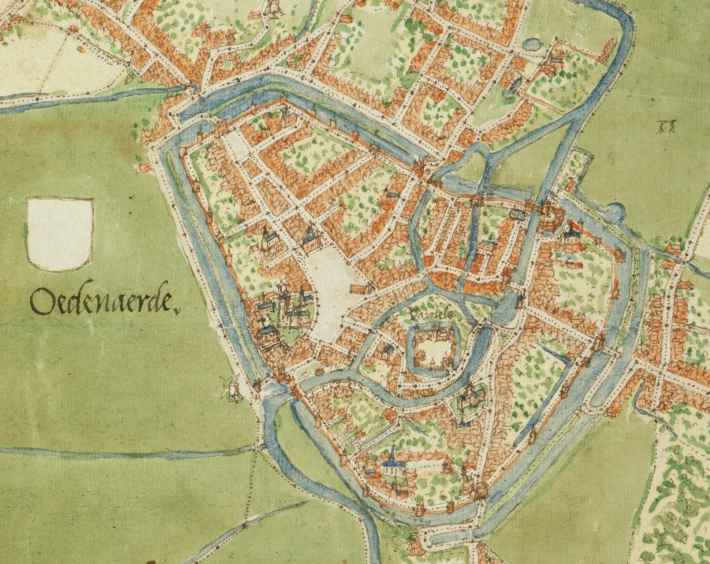 Oudenaarde, Belgium_;_ detail from Deventer_Map